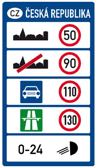 IP 28 "Speed limits". Road sign of the Czech Republic